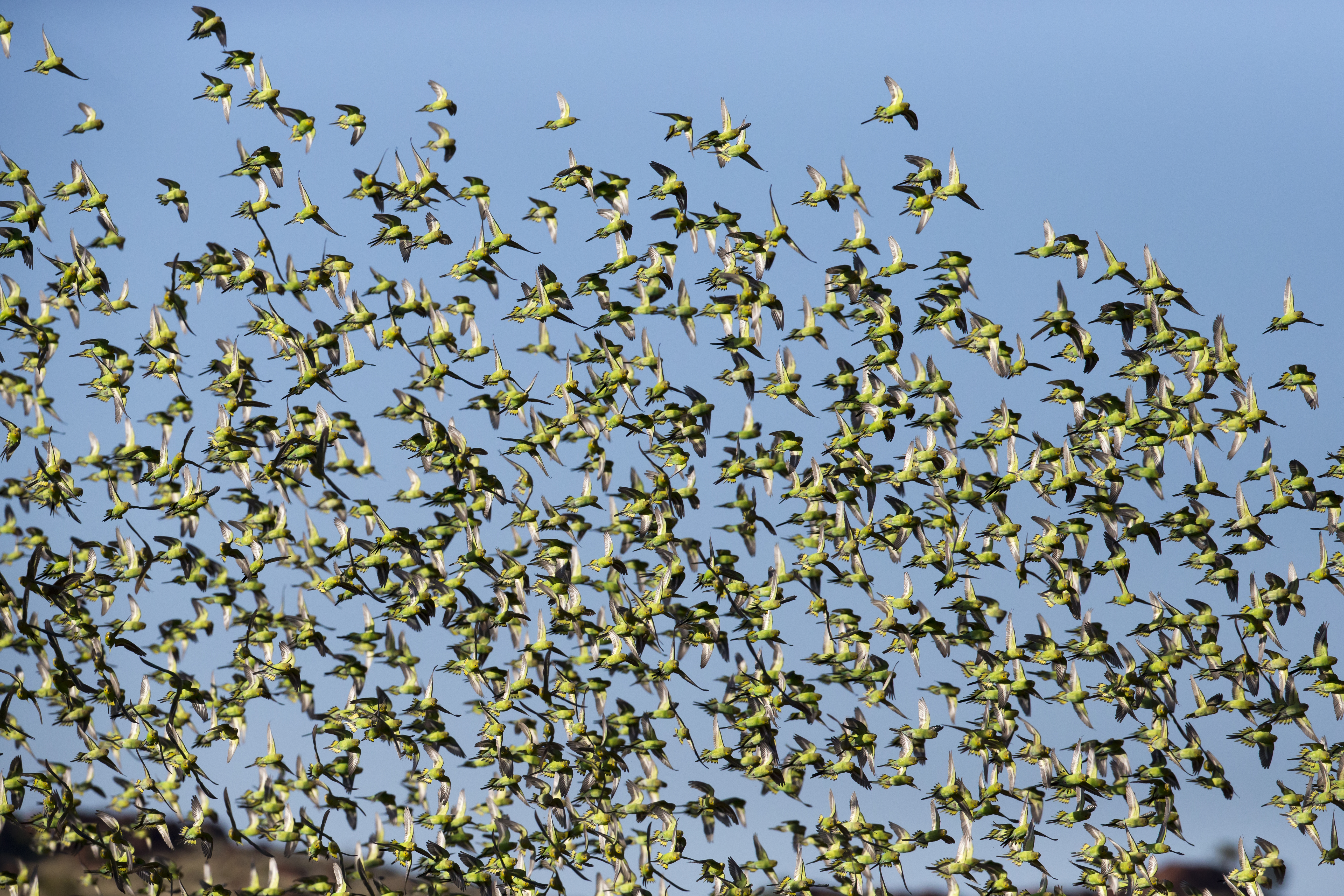 Budgerigar Melopsittacus undulatus flock, Karratha, Pilbara region, Western Australia